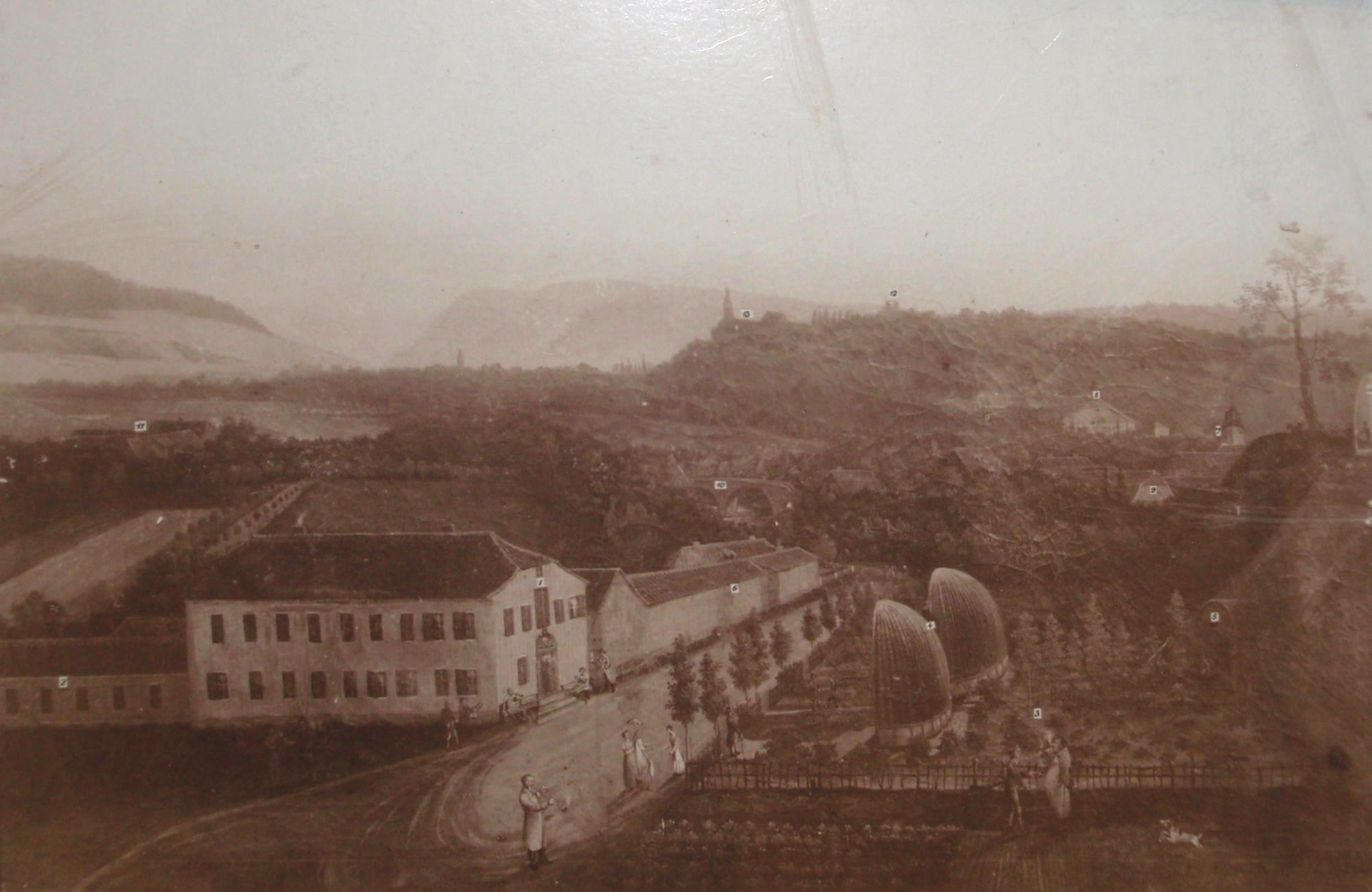 spa "Günthersbad" of Stockhausen/Sondershausen